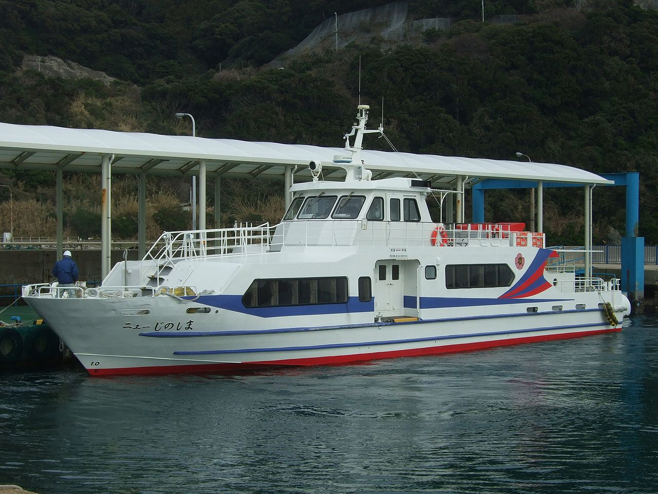 Munakata City Ferry "New Jinoshima" / at Oshima Port, Munakata City, Fukuoka, Japan.